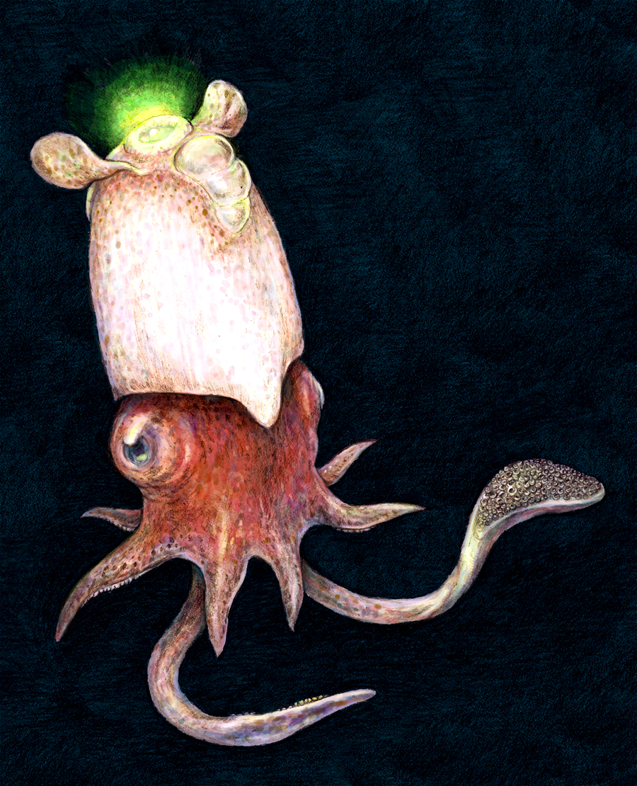 Illustration of Spirula spirula.